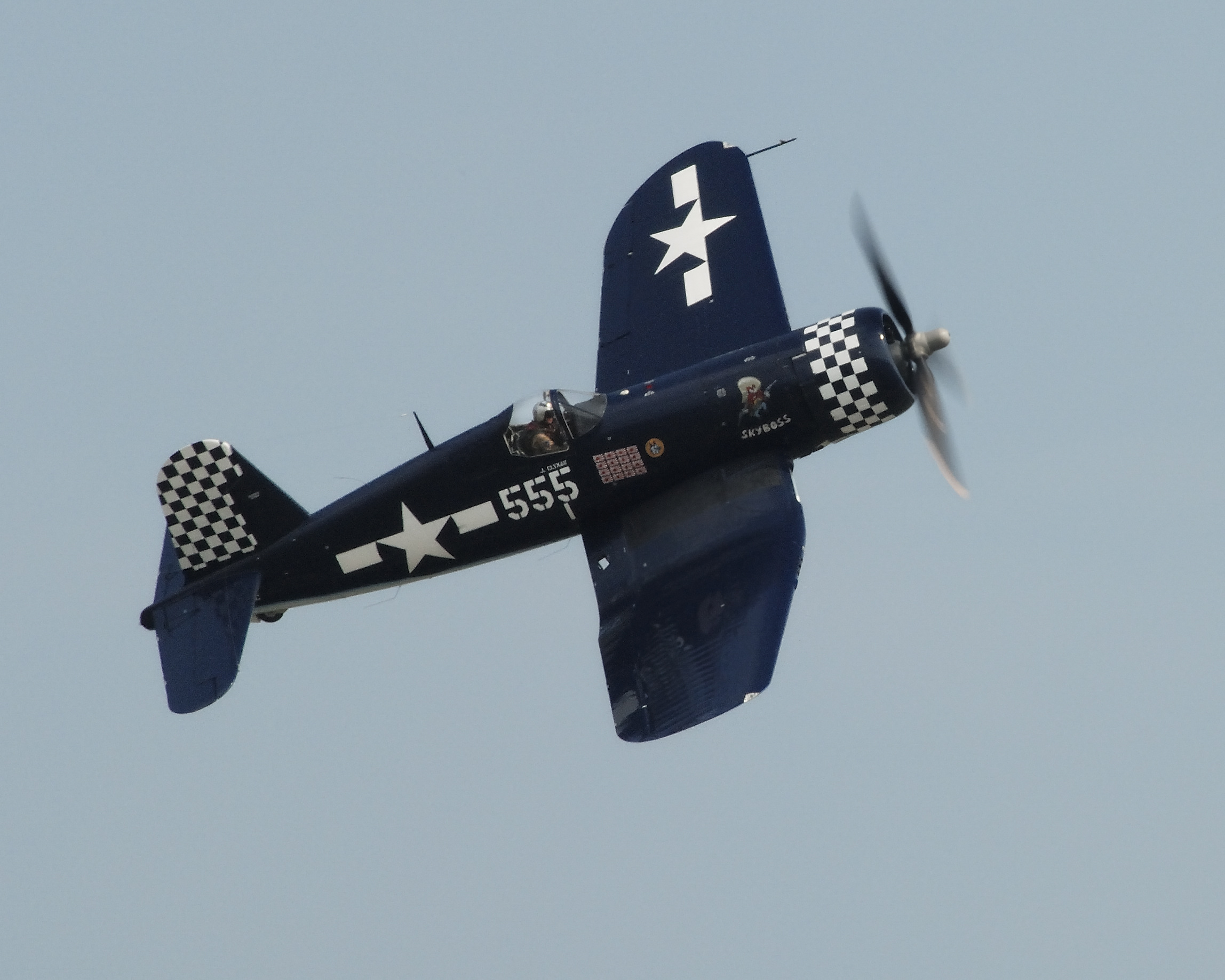 FG-1 May 2006, Bridgeport, Connecticut